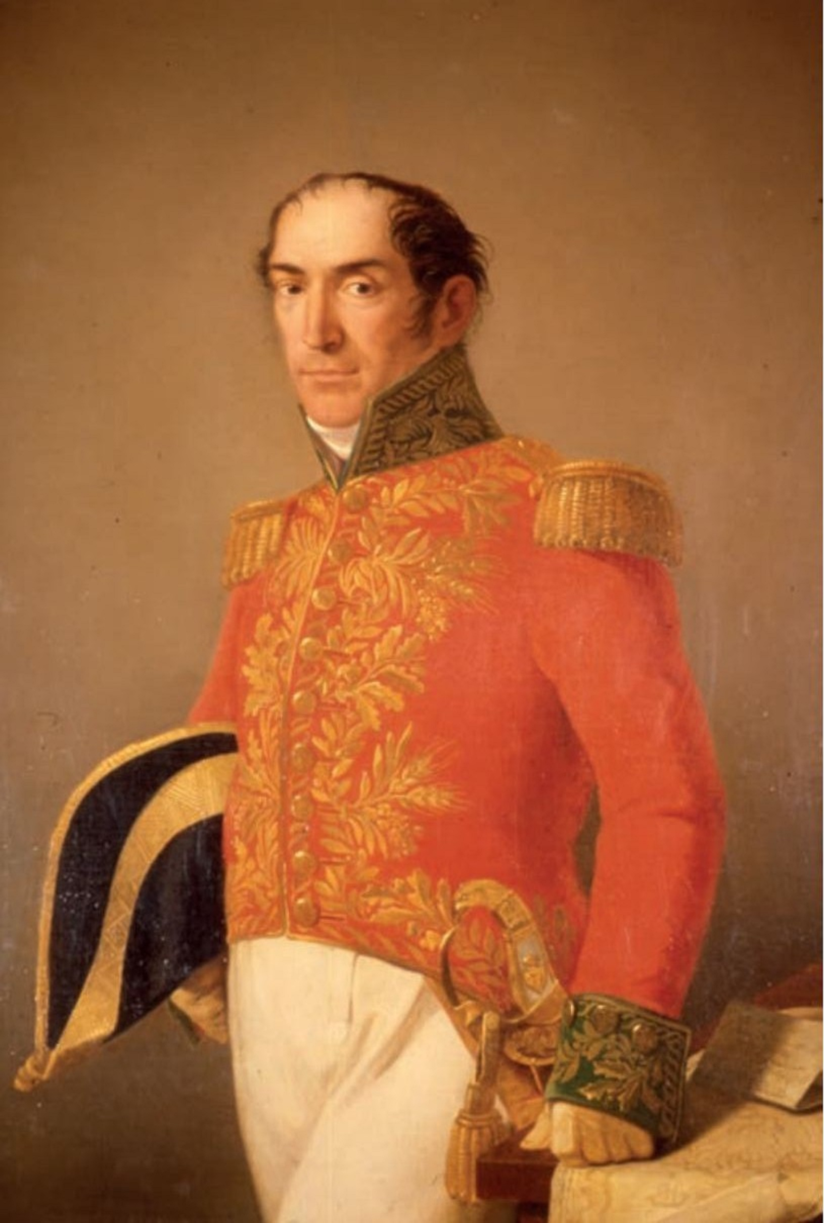 Portrait of Joseph Acerbi